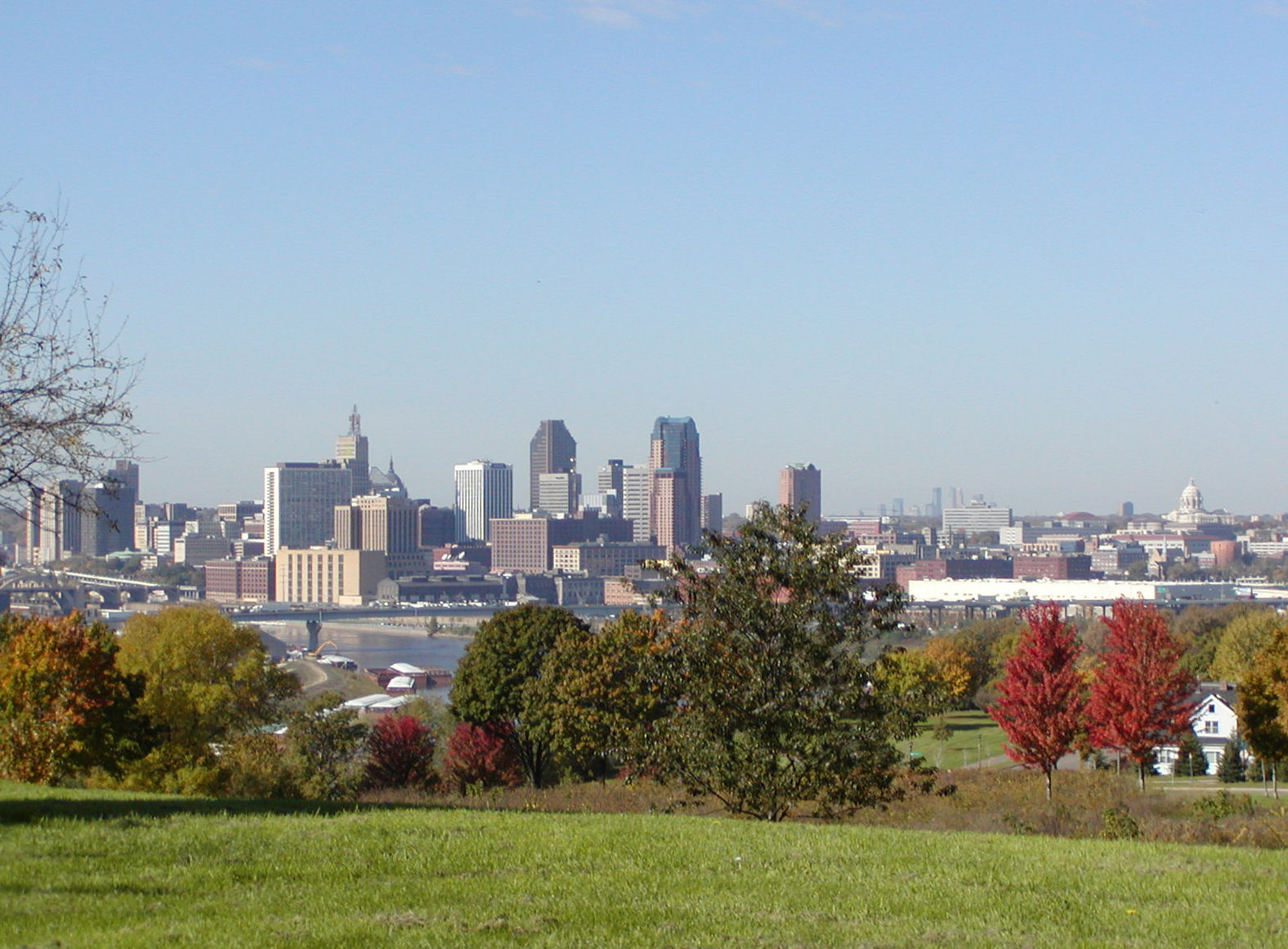 taken by William Wesen on 10/14/2005